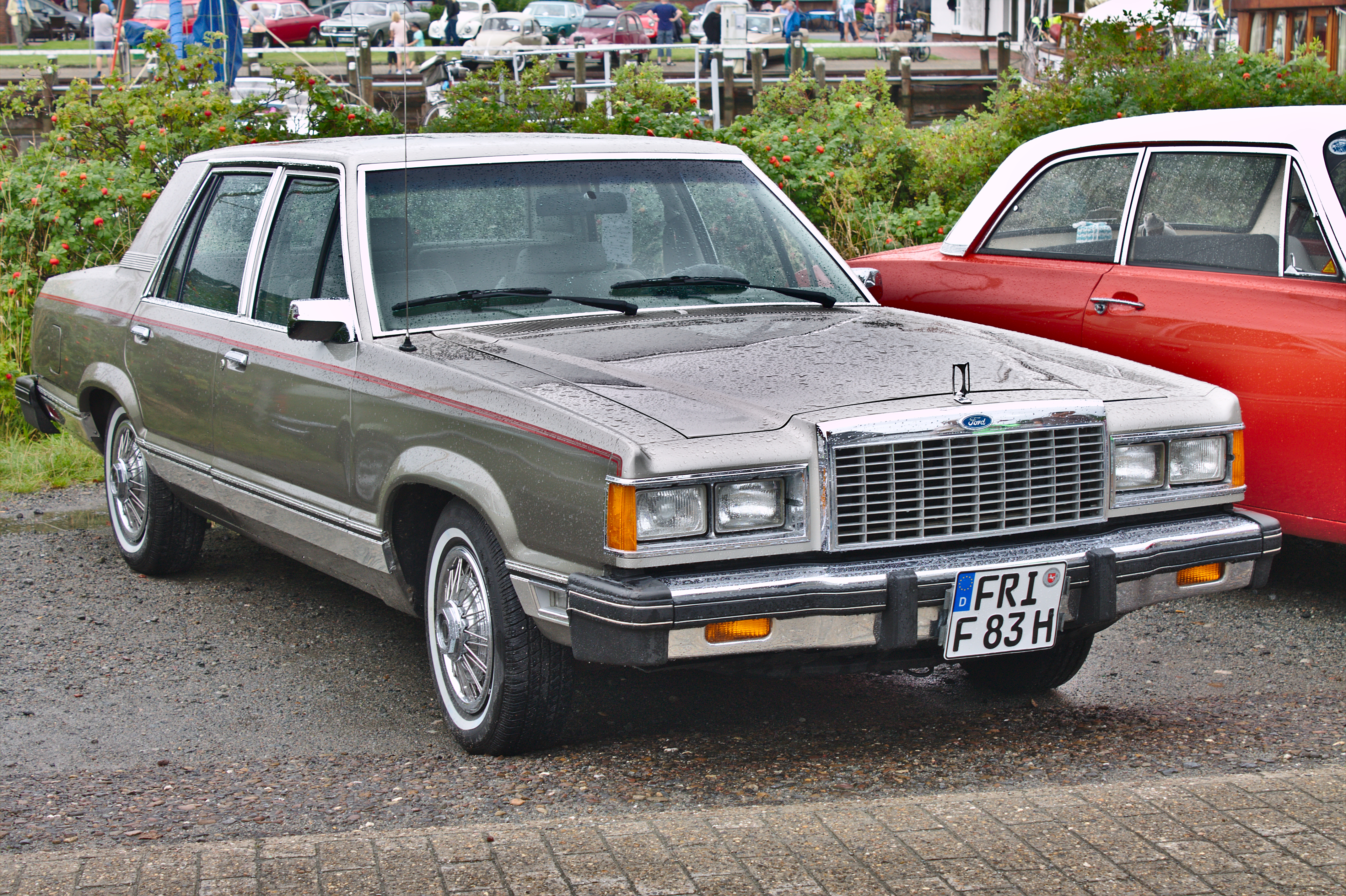 Front right view of a 1982-issue Ford Granada (U.S. version) sedan on a classic car meeting in Varel, Lower Saxony, Germany.